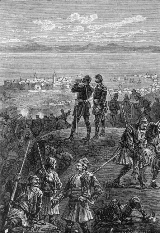 An illustration from Jules Verne's novel "The Archipelago on Fire" drawn by Léon Benett.